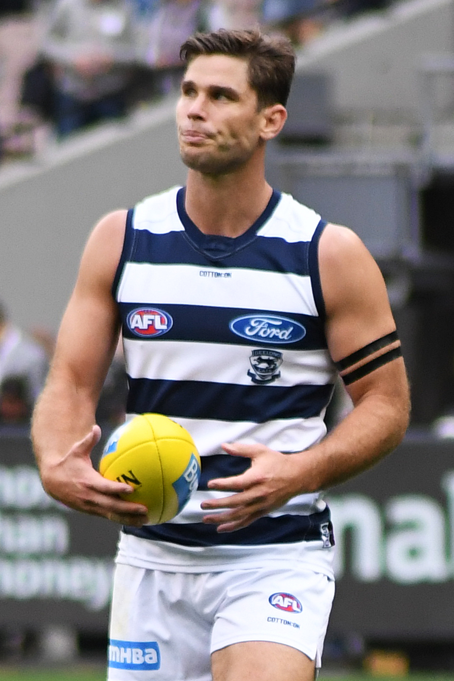 Tom Hawkins of Geelong during the 2019 AFL round 5 match between Hawthorn and Geelong at the Melbourne Cricket Ground on Monday, 22 April 2019 in Melbourne, Victoria.